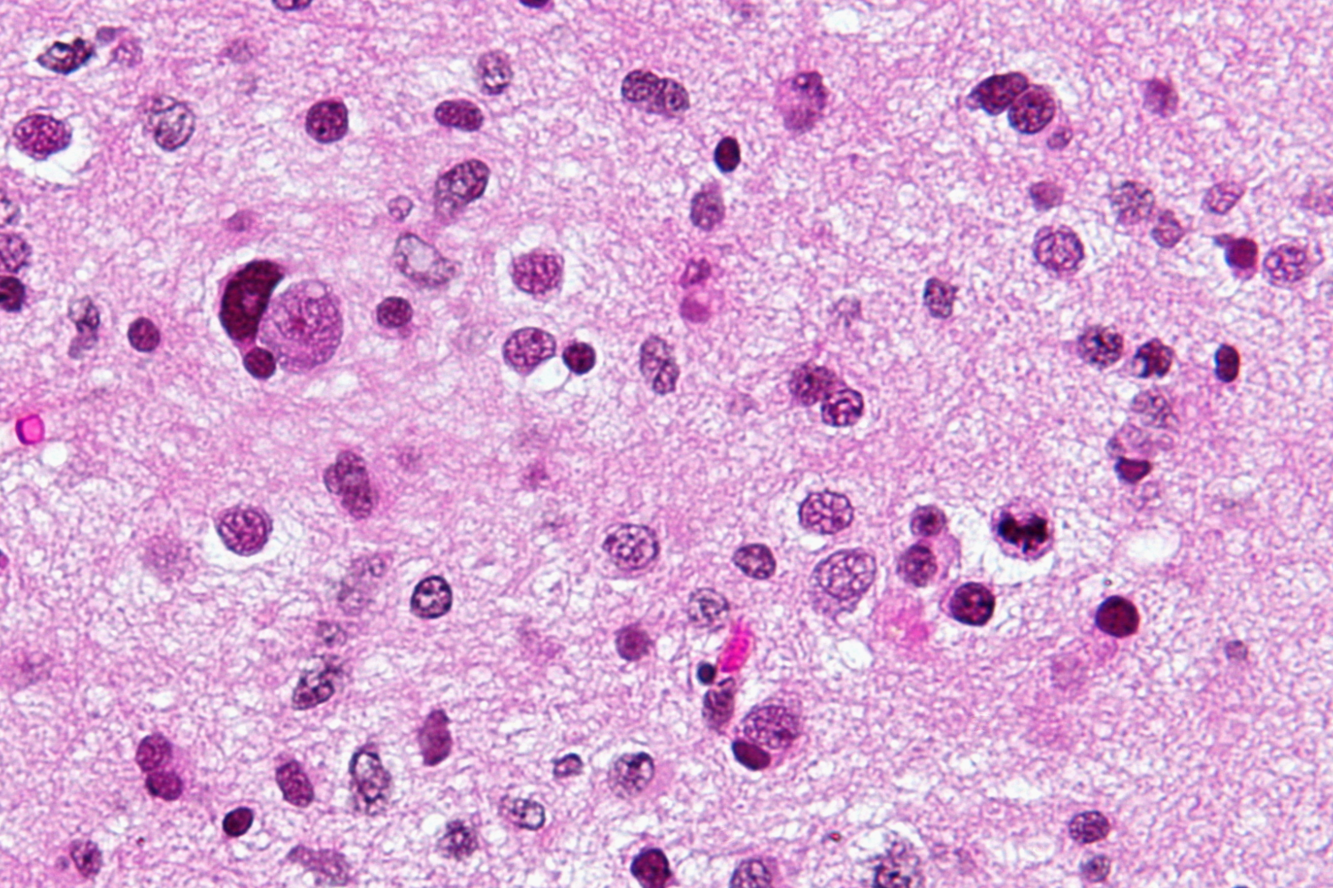 Very high magnification micrograph of an anaplastic astrocytoma. H&E stain. The typical features are present: Marked nuclear atypia. Elongated nuclei (consistent with derivation from an astrocyte ). Mitoses. Fine fibrillary processes (consistent with a glial cell population). Cytoplasmic staining of atypical cells with GFAP. p53 immunohistochemical stain positivity. High proliferative rate based on Ki-67 staining. Related images Low mag. Intermed. mag. High mag. Very high mag. GFAP. Very high mag. Ki-67. High mag. p53. Very high mag.